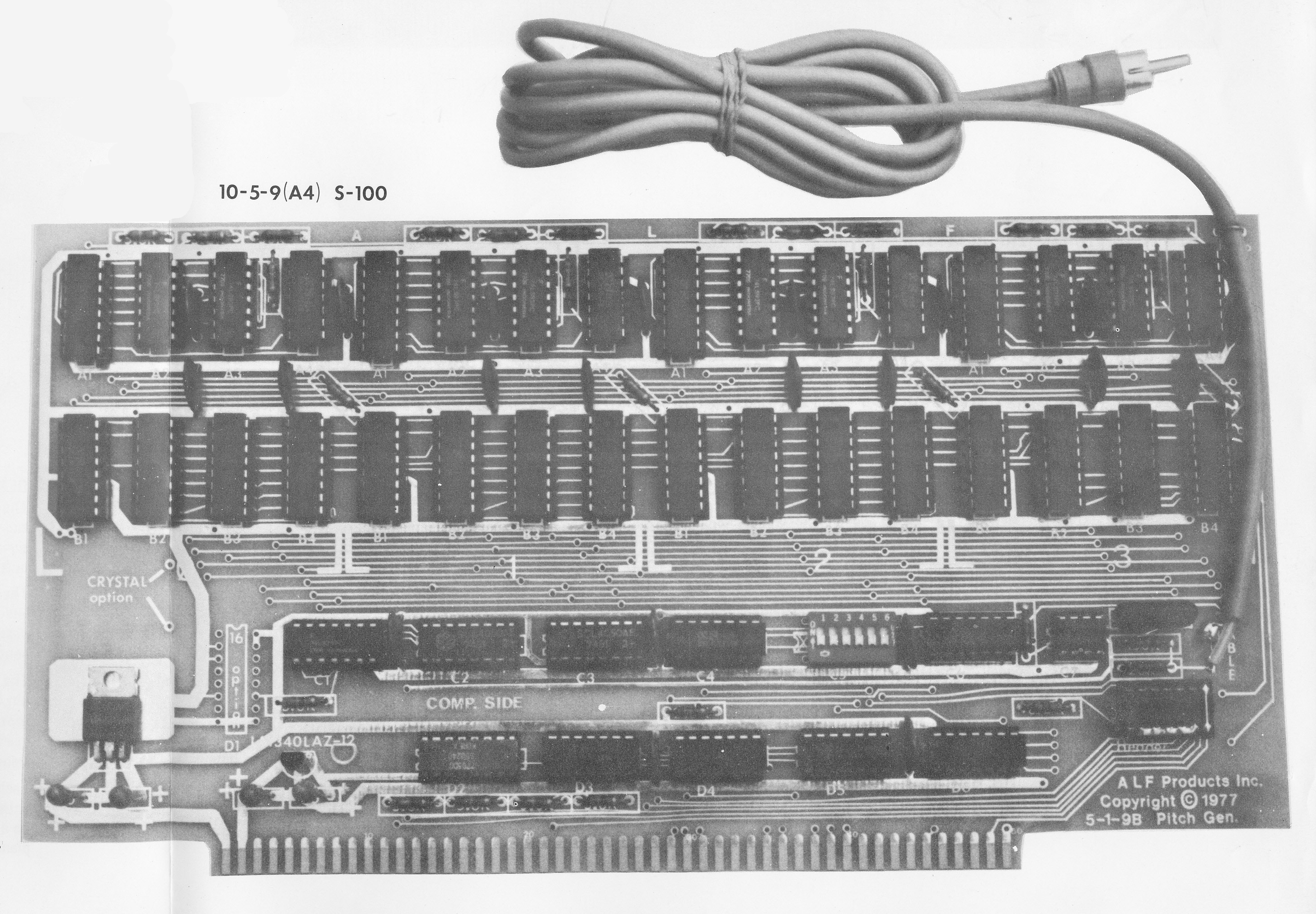 ALF Products Inc. Quad Chromatic Pitch Generator circuit card, front side.